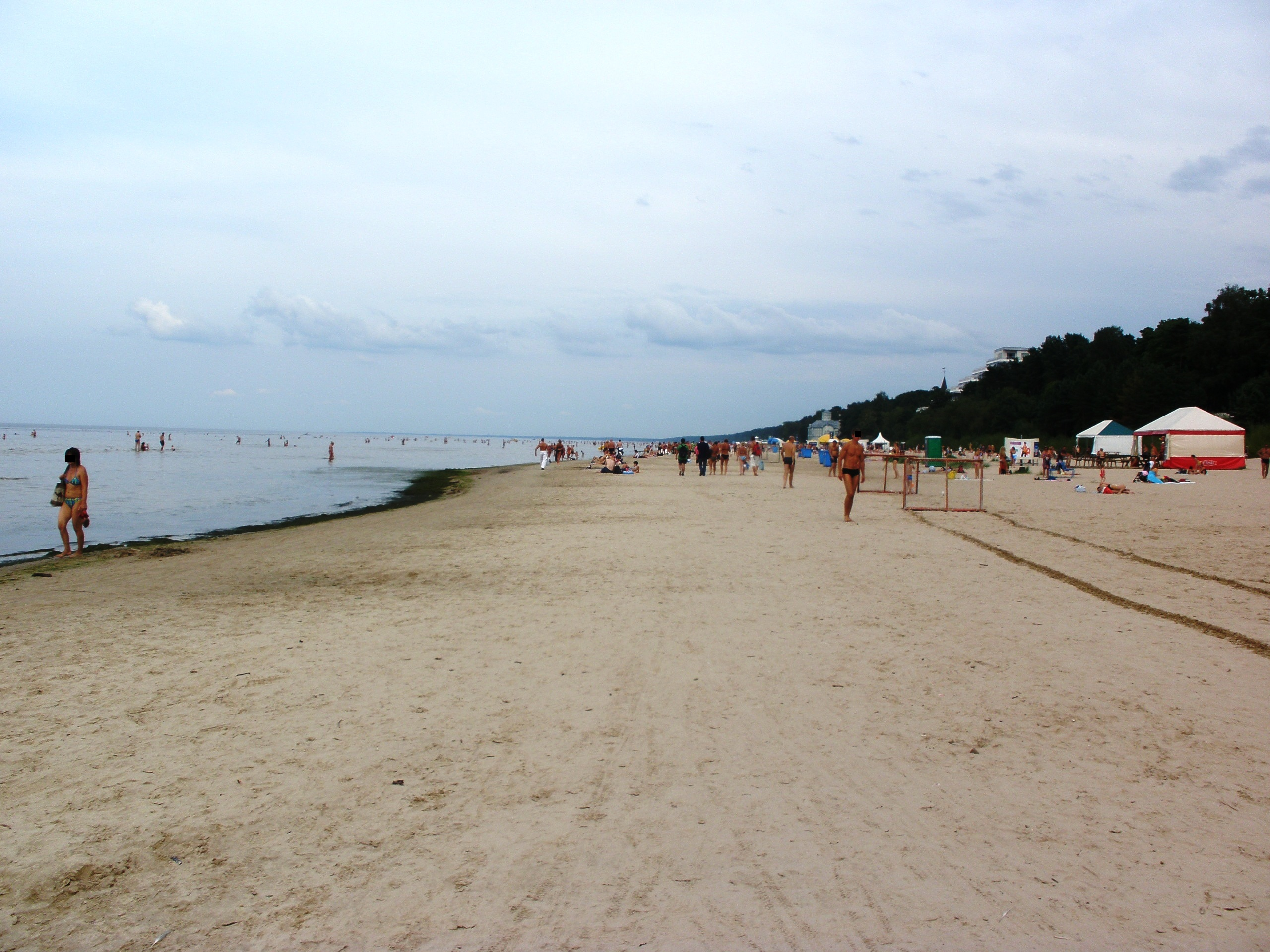 Beach of Jurmala, near Riga, Latvia